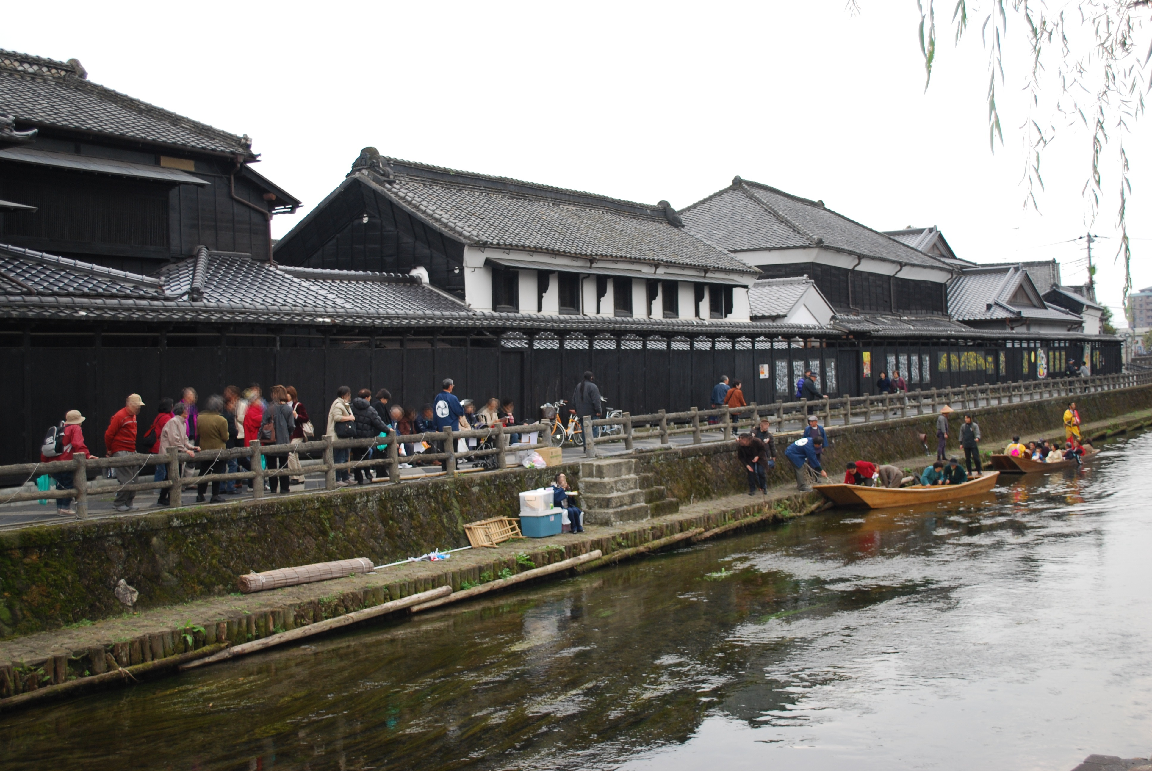 Storehouse along Uzuma river,tochigi-city,japan